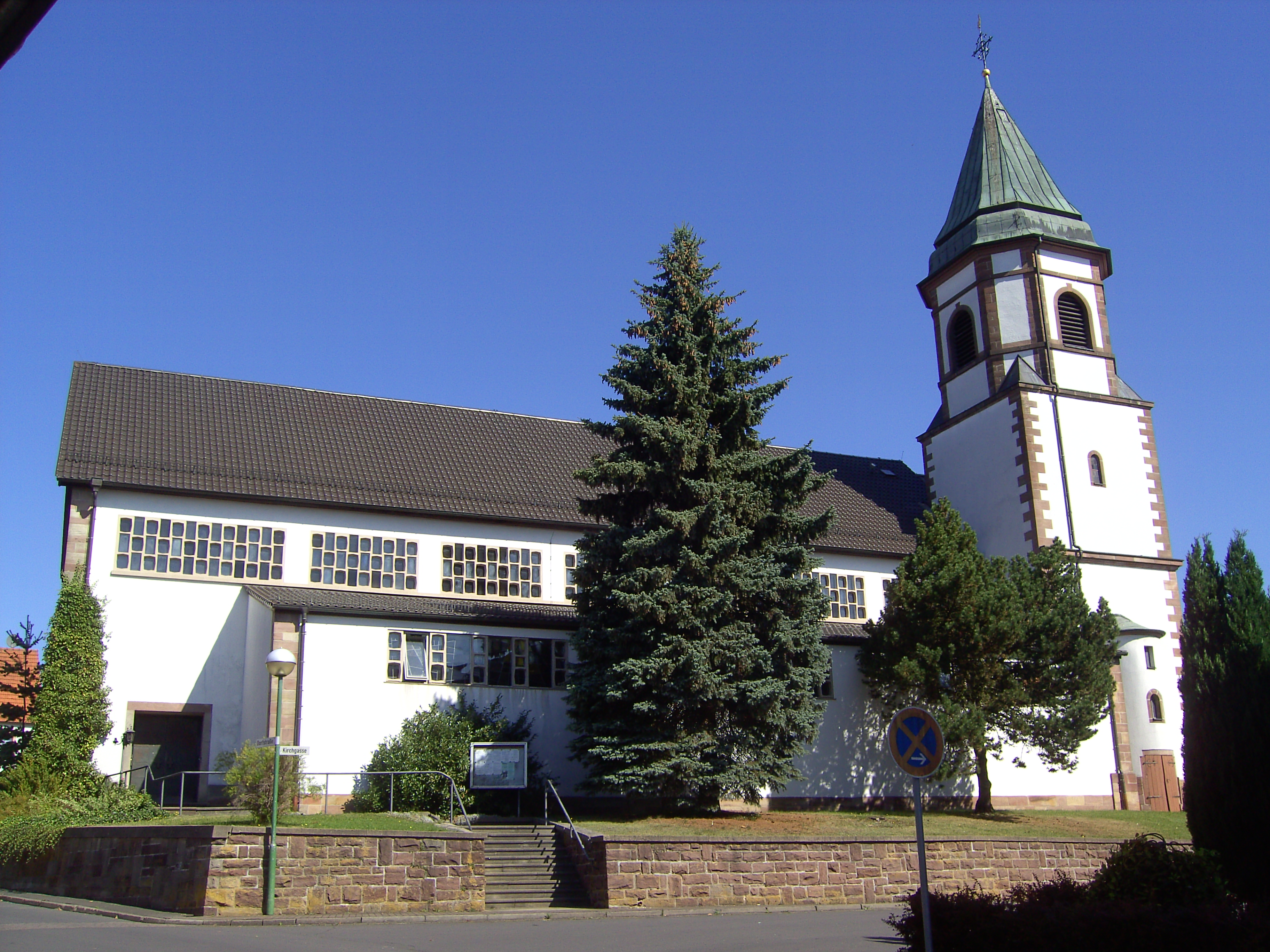 Roman Catholic Church, Steinbach (Burghaun)